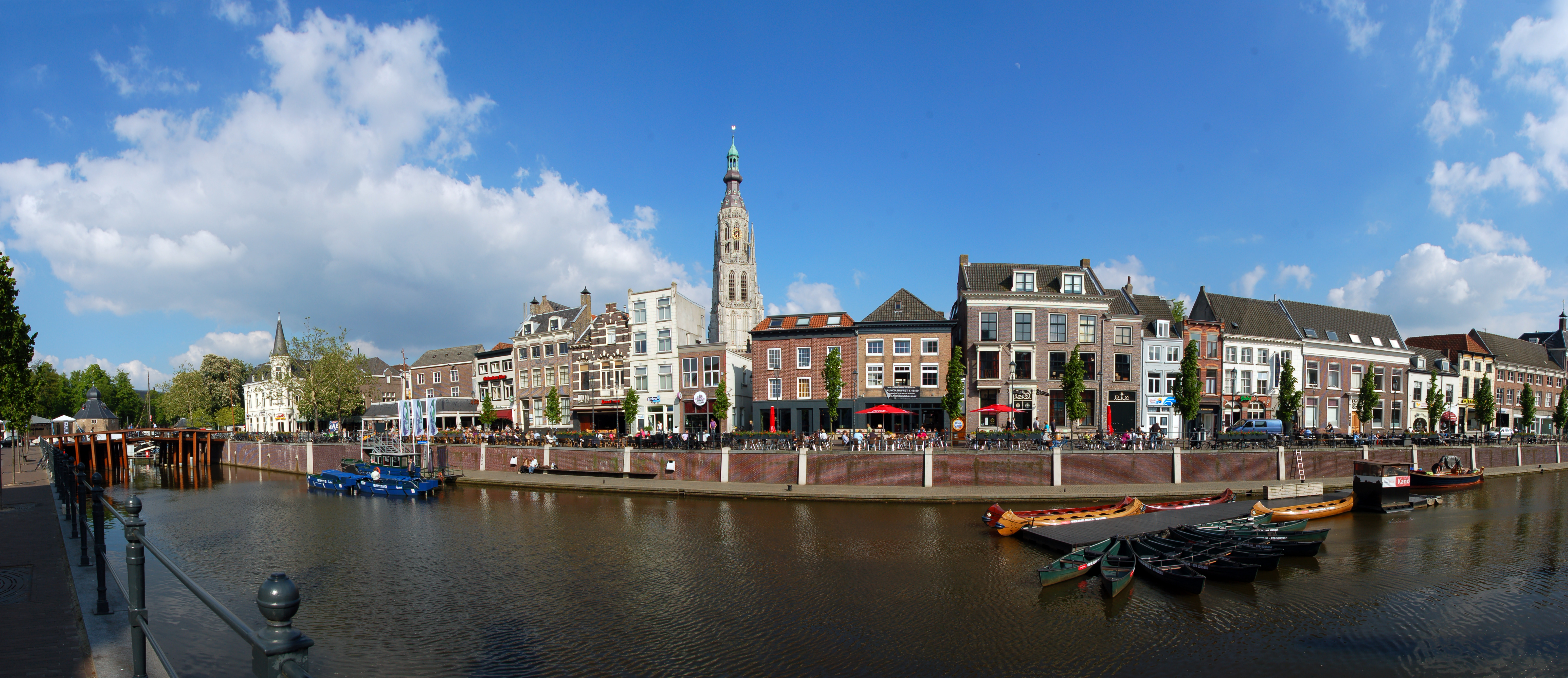 Port of Breda, Netherlands